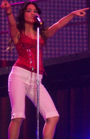 I Can't Take My Eyes Off Of You